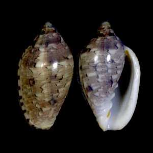 Species: Marginella rosea Lamarck, 1822 distribution: West Cape Peninsula to Cape Agulhas, South Africa data: at 6m, Danger Point, Gansbaai, S. Africa